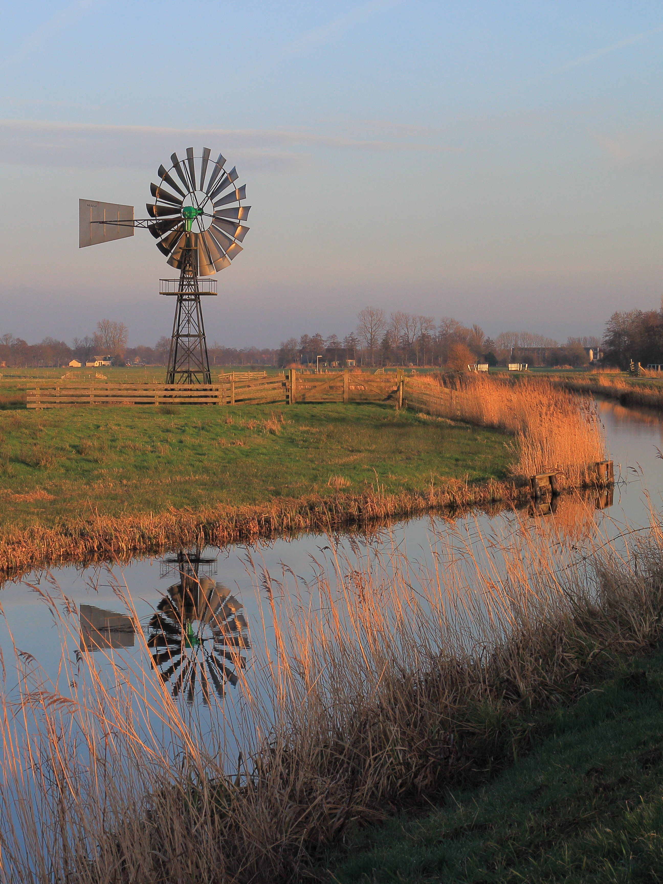 American windmill. Location: De Alde Feanen.